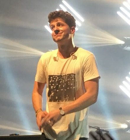 Charlie Puth performing at the Regency Ballroom in San Francisco as part of his Nine Track Mind Tour in March 2016